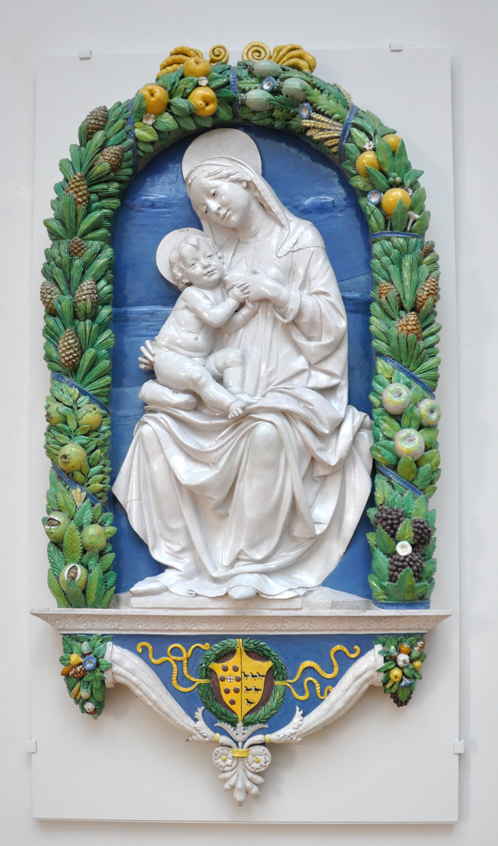 Virgin and Child, devotional relief by Andrea della Robbia; Firenze, c. 1487–1488; blue and white enamelled terracotta, with polychrome enamelled terracotta border and console Victoria and Albert Museum, London, museum no. 7630-1861, Link